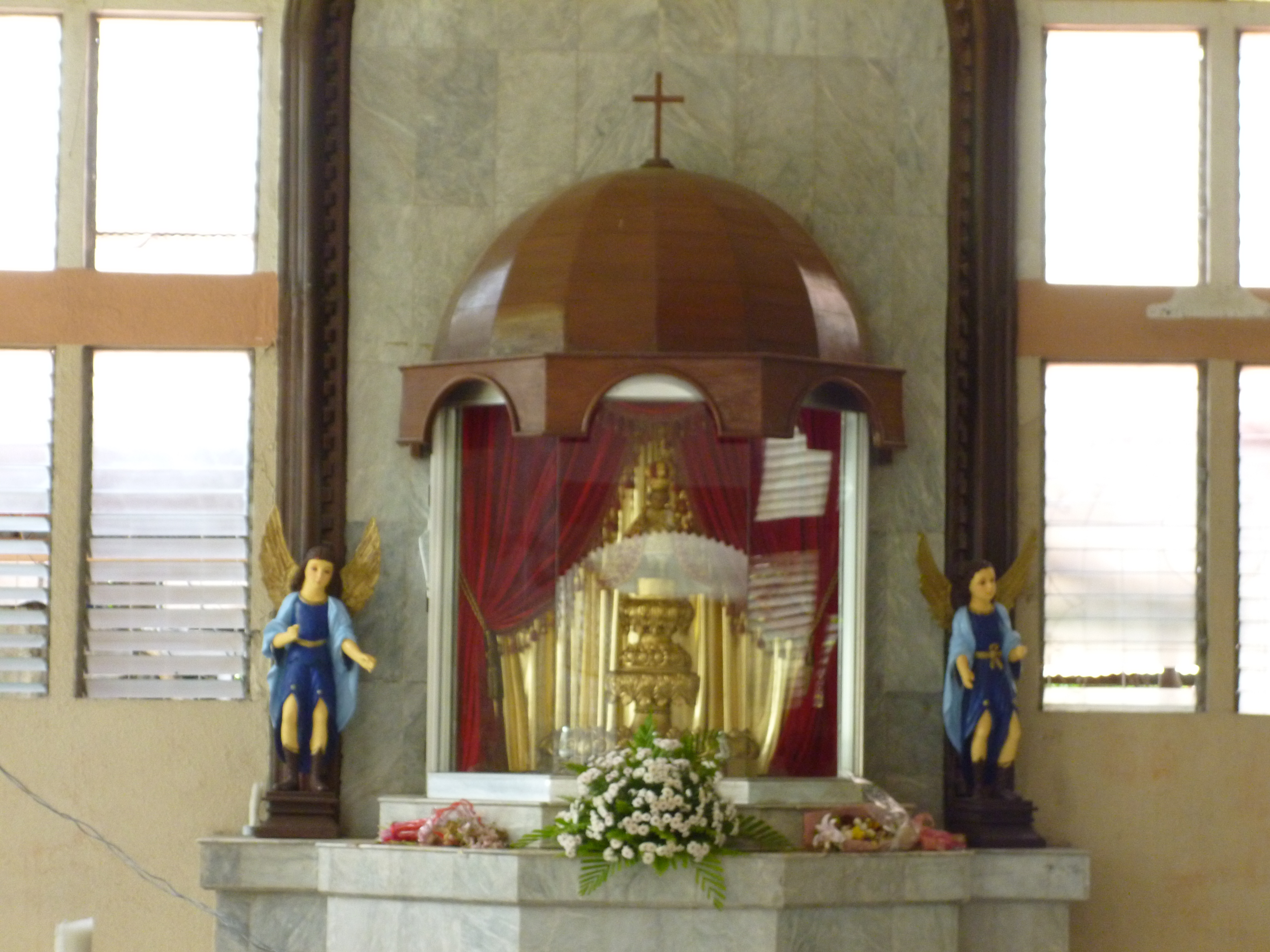 The 3rd Oldest Santo Nino in the Philippines in the parish church of Villa de Arevalo, Iloilo City